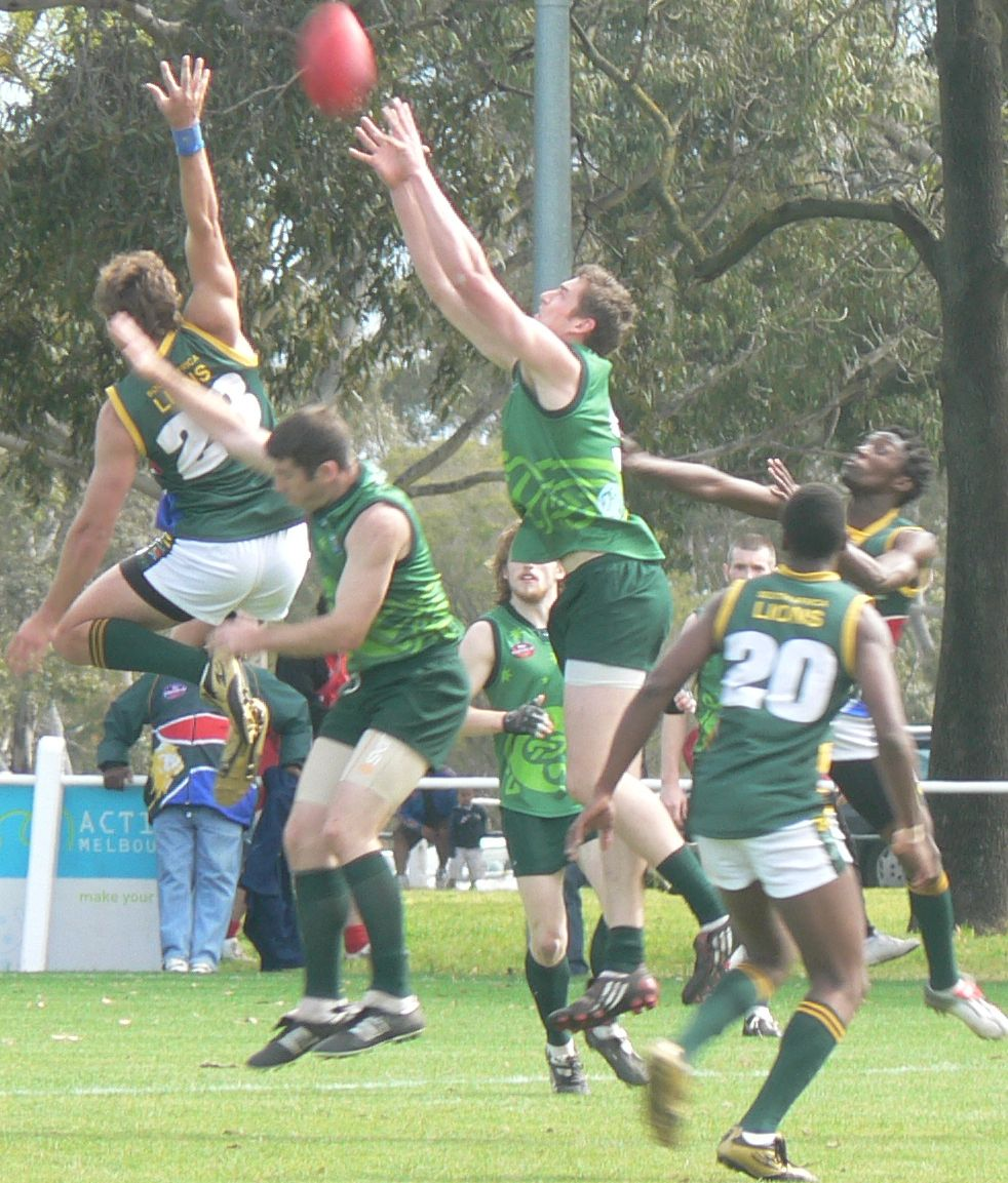 Irish player takes a spectacular mark against South Africa during the 2008 Australian Football International Cup